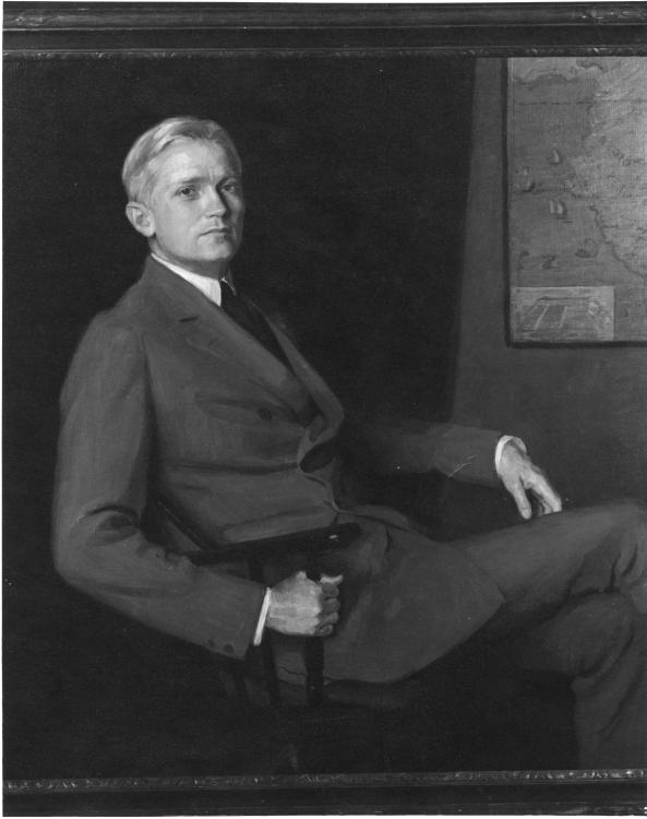 "Hiram Bingham," portrait by Mary Foote. Mary Foote was the sister of Harry Ward Foote, the Yale University chemistry professor who accompanied Hiram Bingham III on his expedition to Machu Picchu in Peru. Harry Ward Foote served as the expedition's sometime photographer, as well as the collector and naturalist on the Bingham expeditions. Image courtesy of the Bingham Family Papers, Yale University Manuscripts & Archives Digital Images Database, Yale University, New Haven, Connecticut.